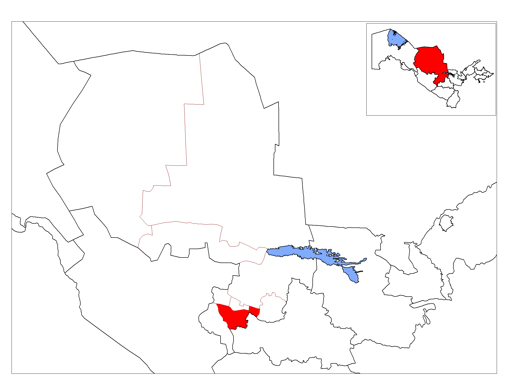 Location map of Karmana District in Navoiy Province, Uzbekistan